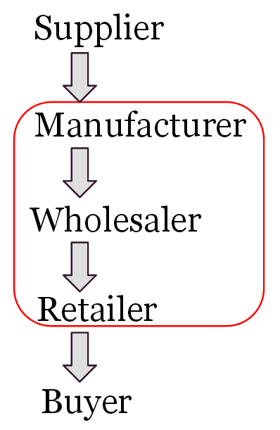 Graphic showing the groups in a supply chain cut out by disintermediation.